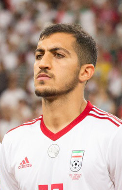 Iran-Portugal match, 2018 FIFA World Cup Group B